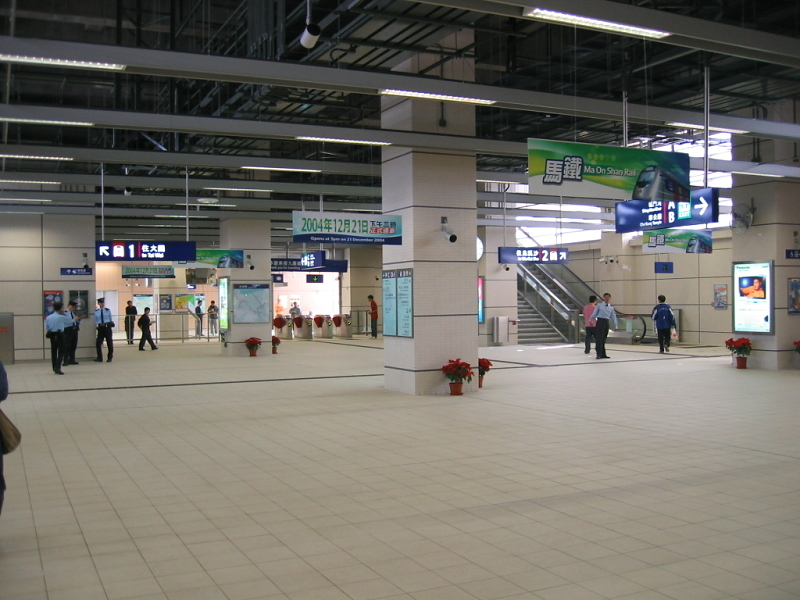 HK KCR MOS Railway Che Kung Temple overview